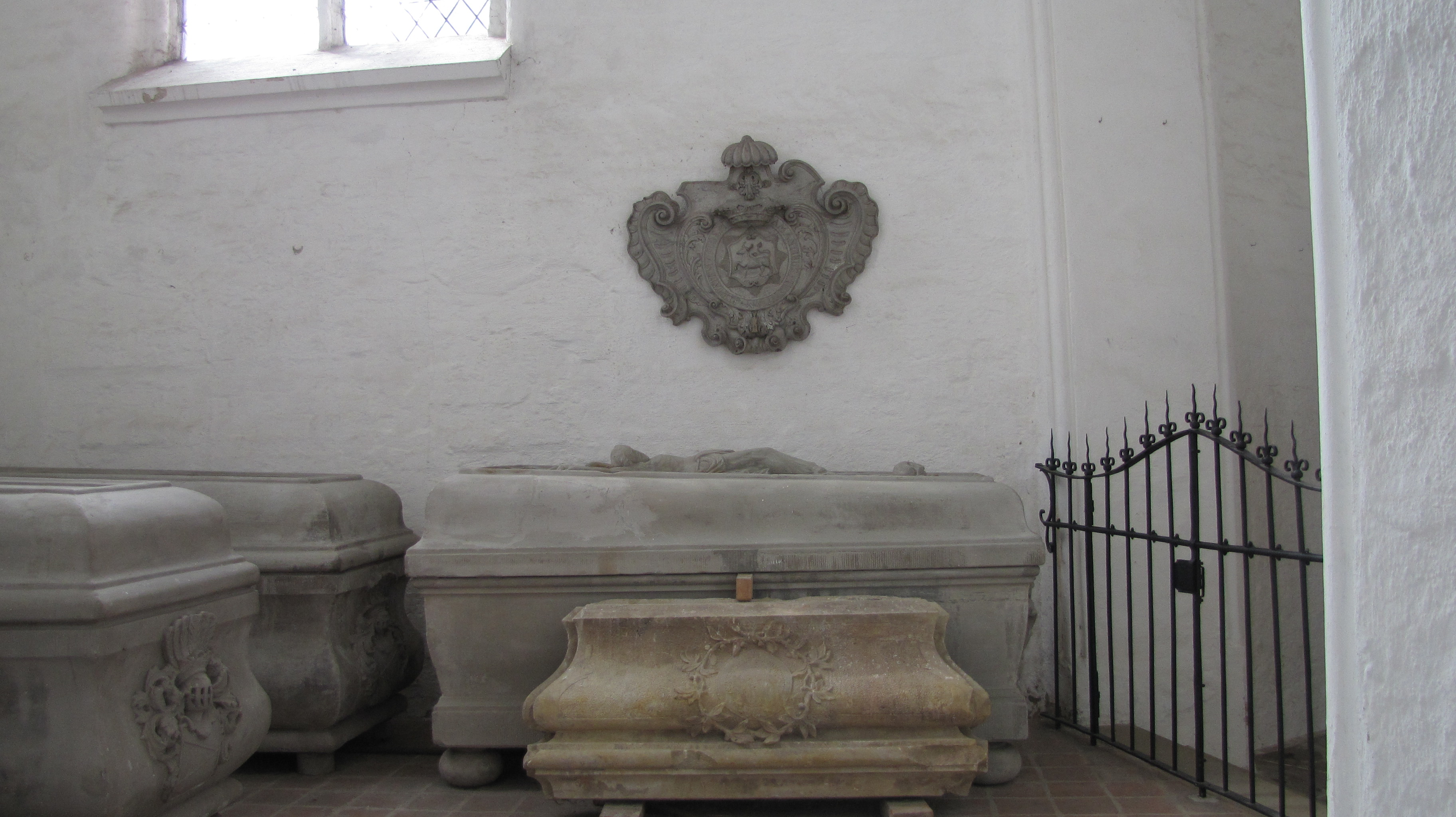 Sarcophagi of the Berckentin family in Lübeck Cathedral